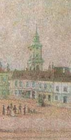 Clock tower in Peremyshl.